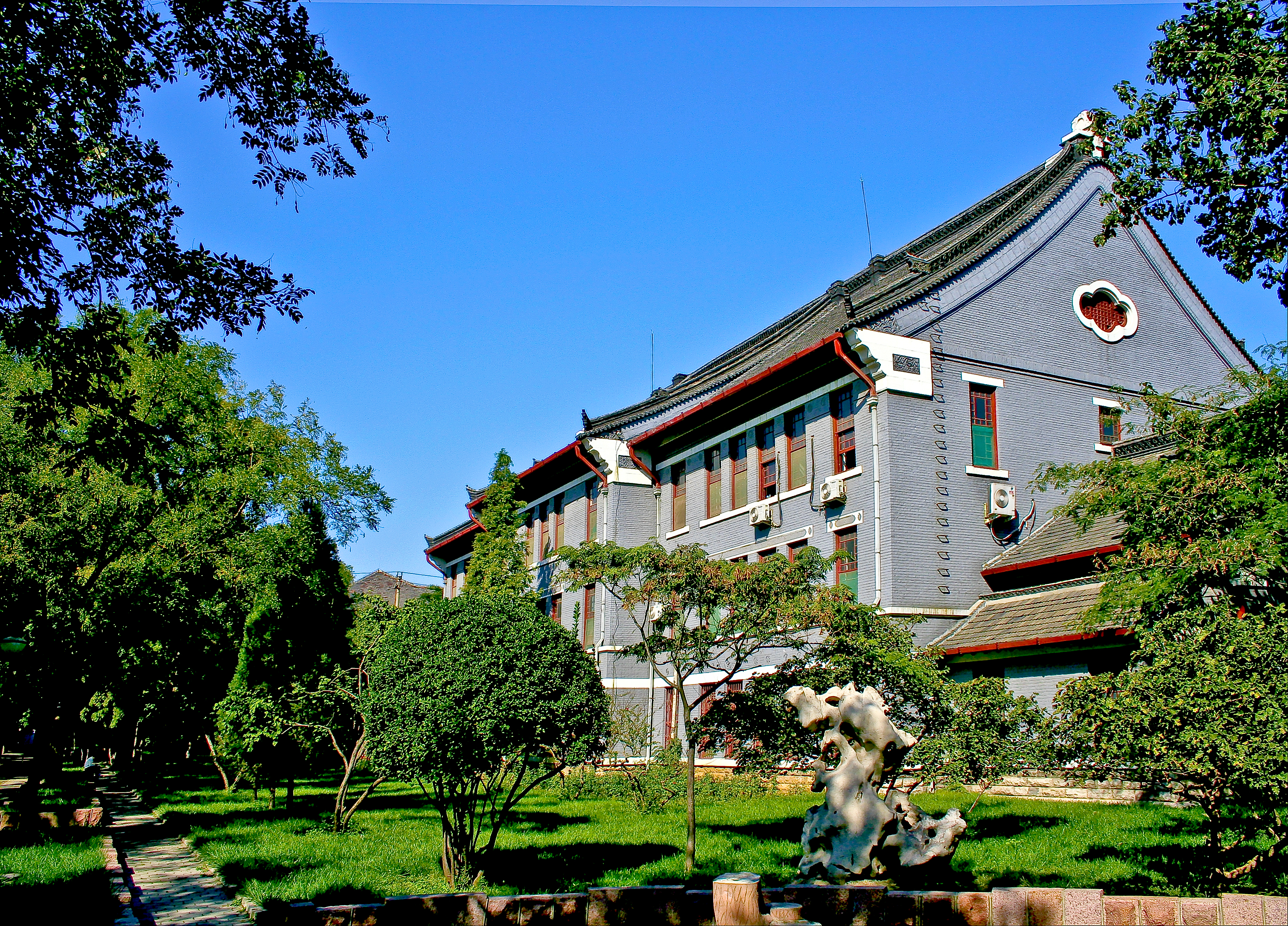 Photograph of building on the Baotuquan Campus of Shandong University, Jinan, China.